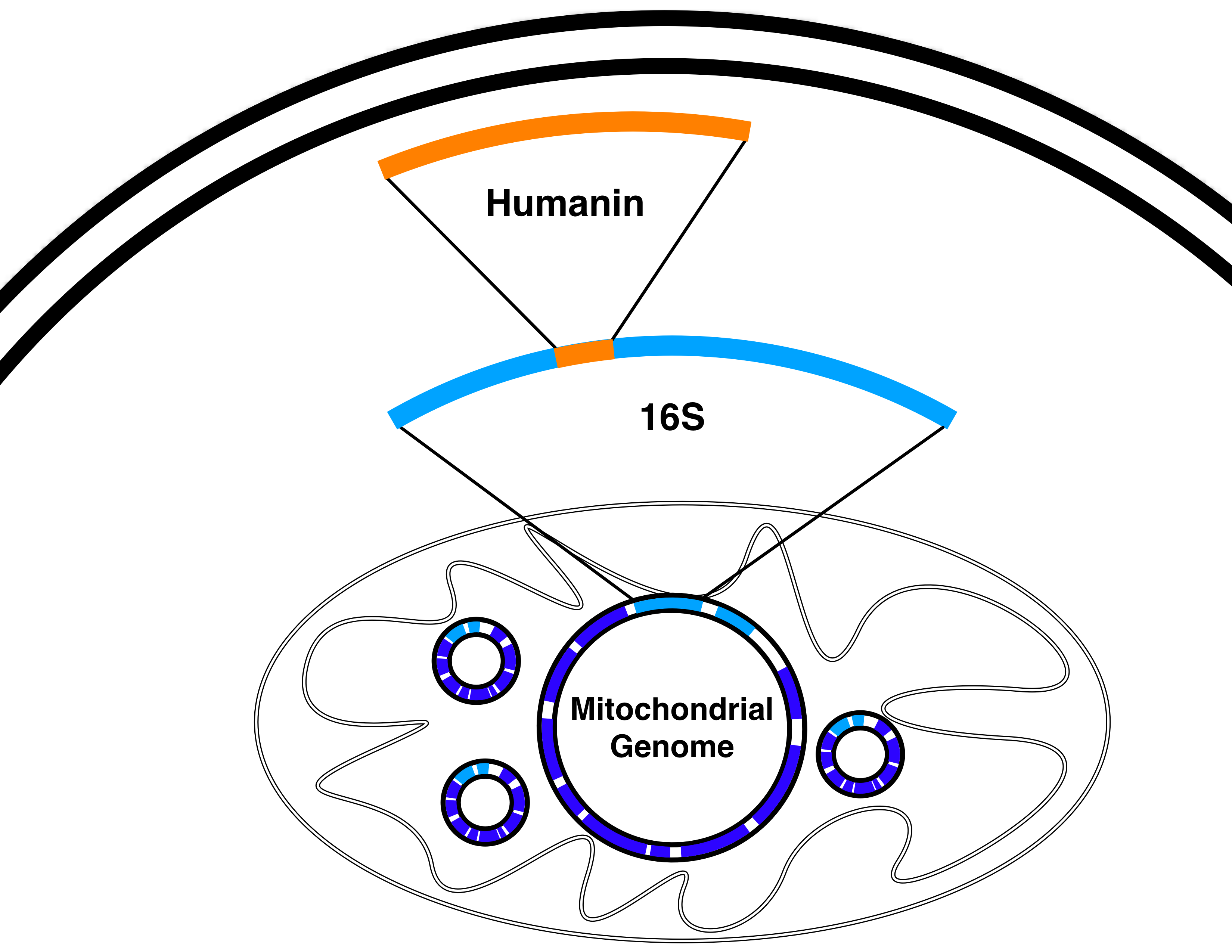 Diagram of the humanin gene and its localization within the 16S gene within the mitochondrial genome